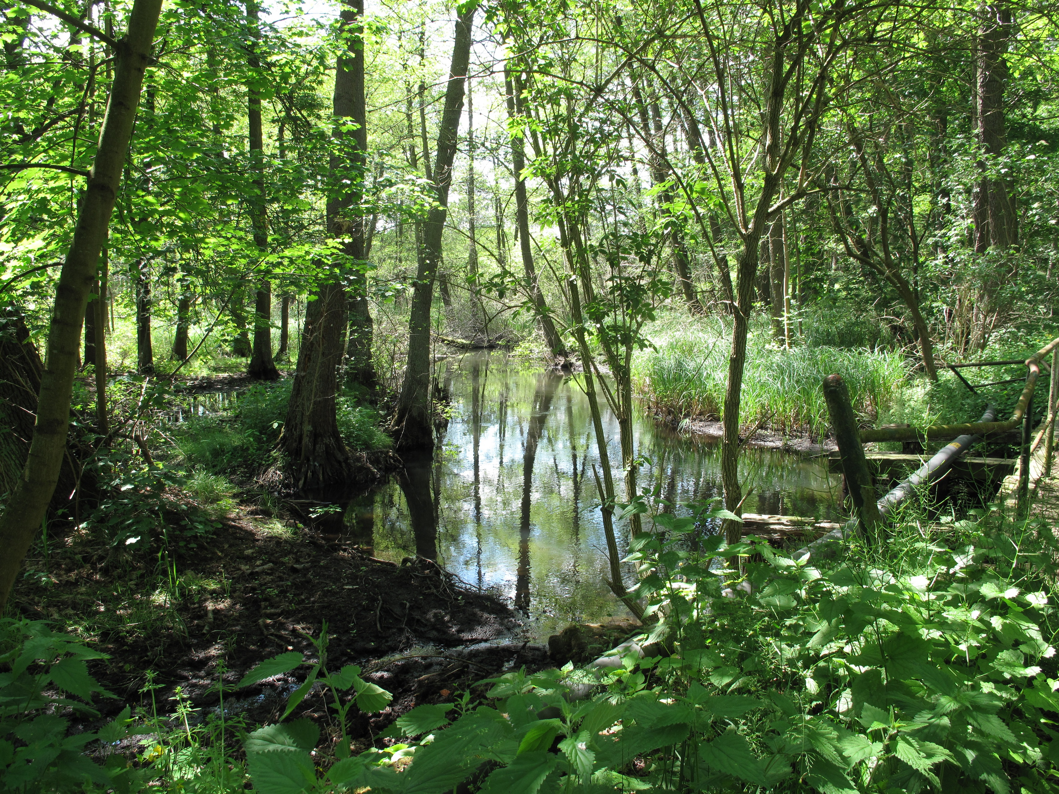 River Löcknitz in the Nature area Löcknitztal nearby Kienbaum. The village Kienbaum is a part of the municipality Grünheide, District Oder-Spree, Brandenburg, Germany. The village had in 2011 approximately 300 inhabitants.